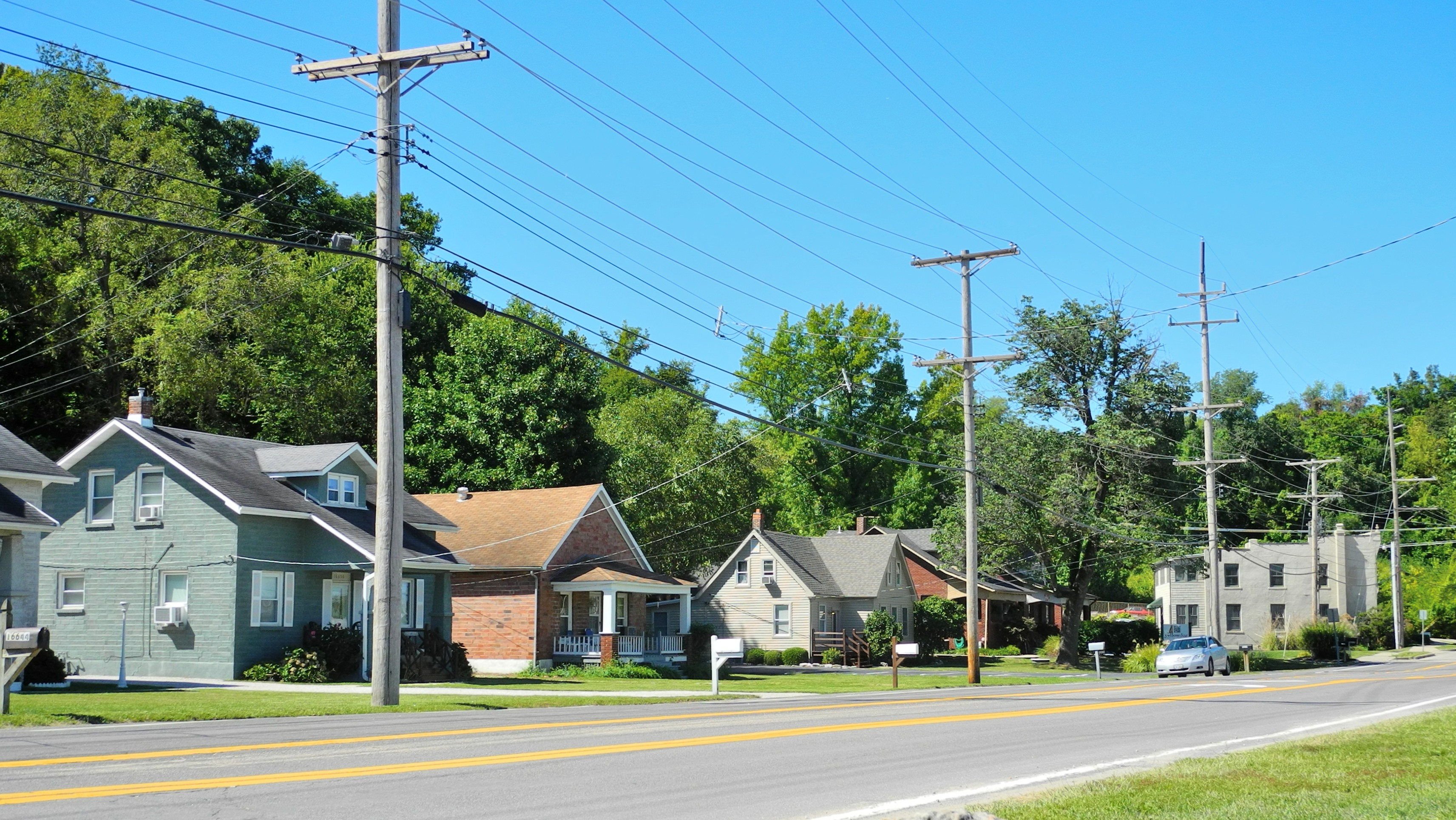 Burkhardt Historic District, 16662-16678 Chesterfield Airport Rd.; also the even-numbered properties of 16626-16660 Chesterfield Airport Rd. Chesterfield